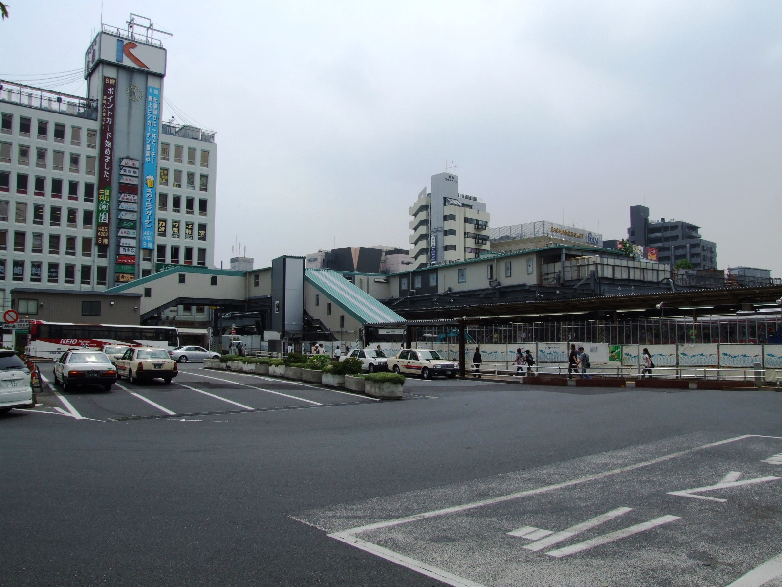 Temporary North Gate of Chōfu station,KEIO-LINE,Keio Corporation,Japan